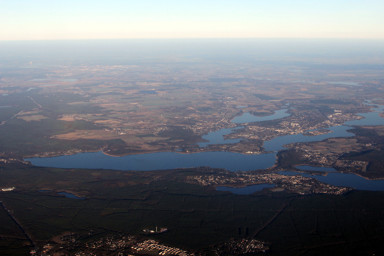 Aerial picture of lake Schwielowsee and lake Glindower See near Potsdam in Brandenburg, Germany, during an approach to Berlin Tegel (TXL)